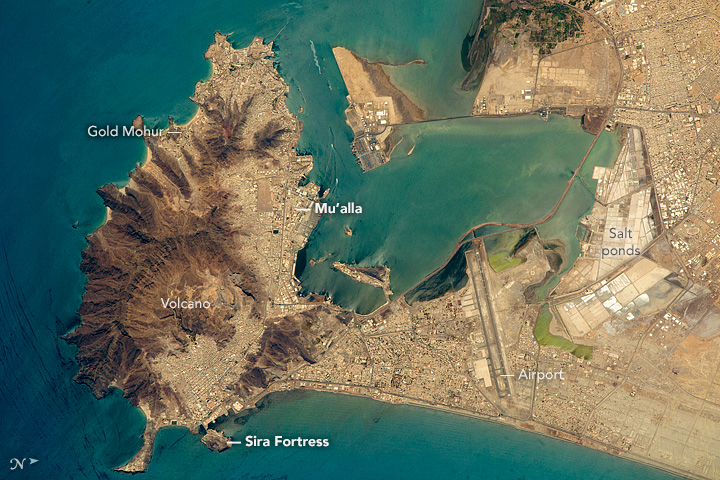 Orbiting almost directly over the port of Aden, an astronaut aboard the International Space Station (ISS) took this photograph of the rugged, extinct volcano, the flat sand spit next to it, and the big bay that now all form the port of Aden. Part of the city (just south of the volcano) is known as the Crater neighborhood, and residents can look downhill onto the docks of the old port and the Sira Fortress, an 11th century fortification on a small island just offshore. The tourist section of Aden is Gold Mohur, which takes advantage of the beaches and surf of this open coastline and the dramatic backdrop of the volcano. On the well-protected bay side of the volcano lies the much larger harbor of Al Mu’alla, the economic hub of Aden. The flat lands of the sand spit are full of salt ponds, where sea water can be evaporated in the near-constant sunshine. Salt production has been a major export from Aden for centuries. The Aden International Airport (formerly the British Royal Air Force station Khormaksar), is Yemen’s second biggest airport. The runways are 3.5 kilometers long (2 miles). The city’s diplomatic missions and the main campus of Aden University surround the airport. Aden lies near the south end of the Red Sea, at a critical point where major sea lanes converge—between Egypt and the Mediterranean Sea, the Persian Gulf and India, and the long shoreline of East Africa. To protect those sea lanes, Great Britain occupied Aden and the surrounding southern parts of the Arabian Peninsula from 1839 to 1967. The small enclave of Djibouti, on the opposite coast in Africa, was held by France for the same reason.